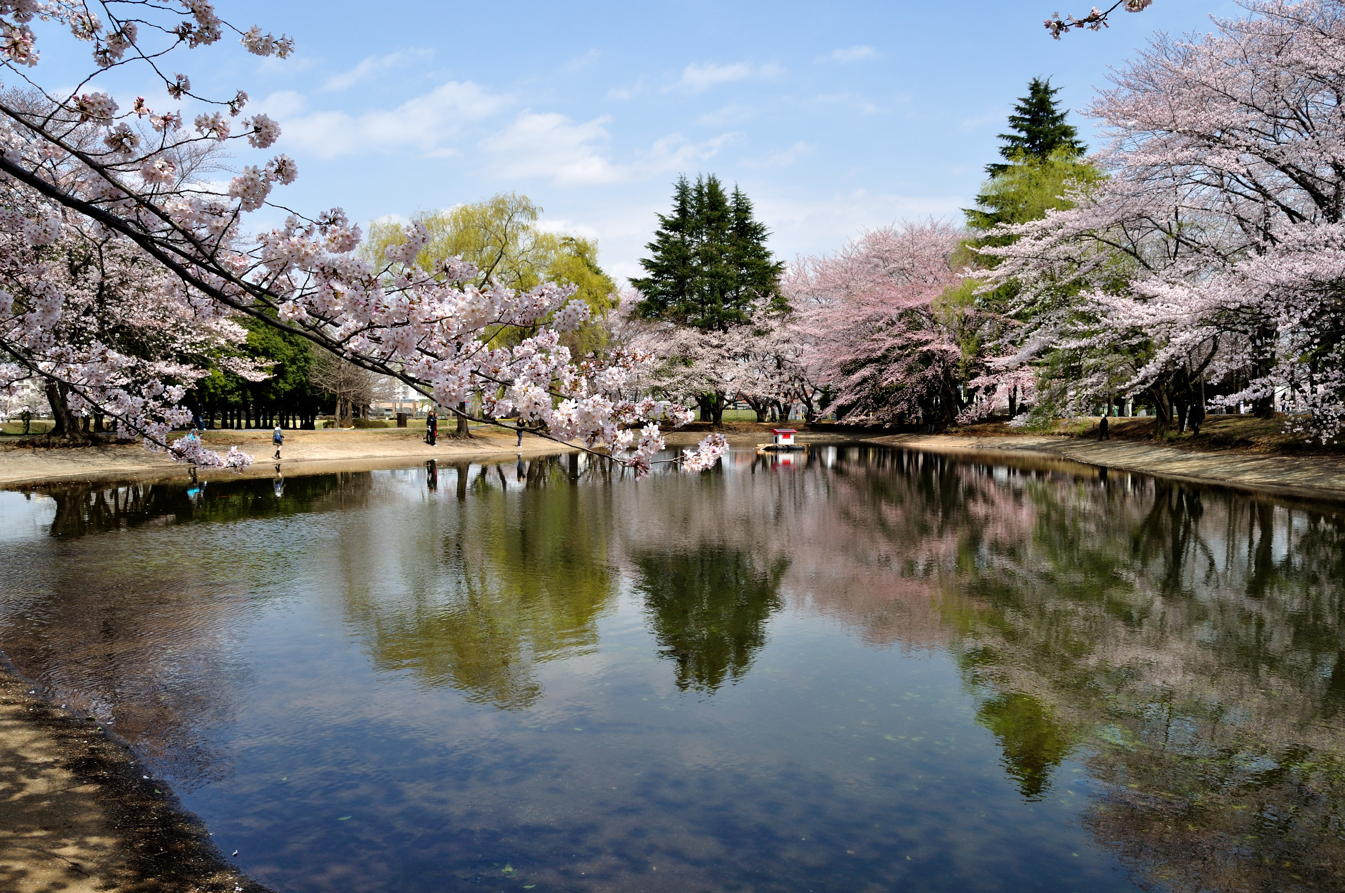 Pond at Japan Ground Self-Defense Force Camp Asaka